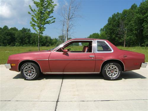 1978 Pontiac Sunbird Coupe